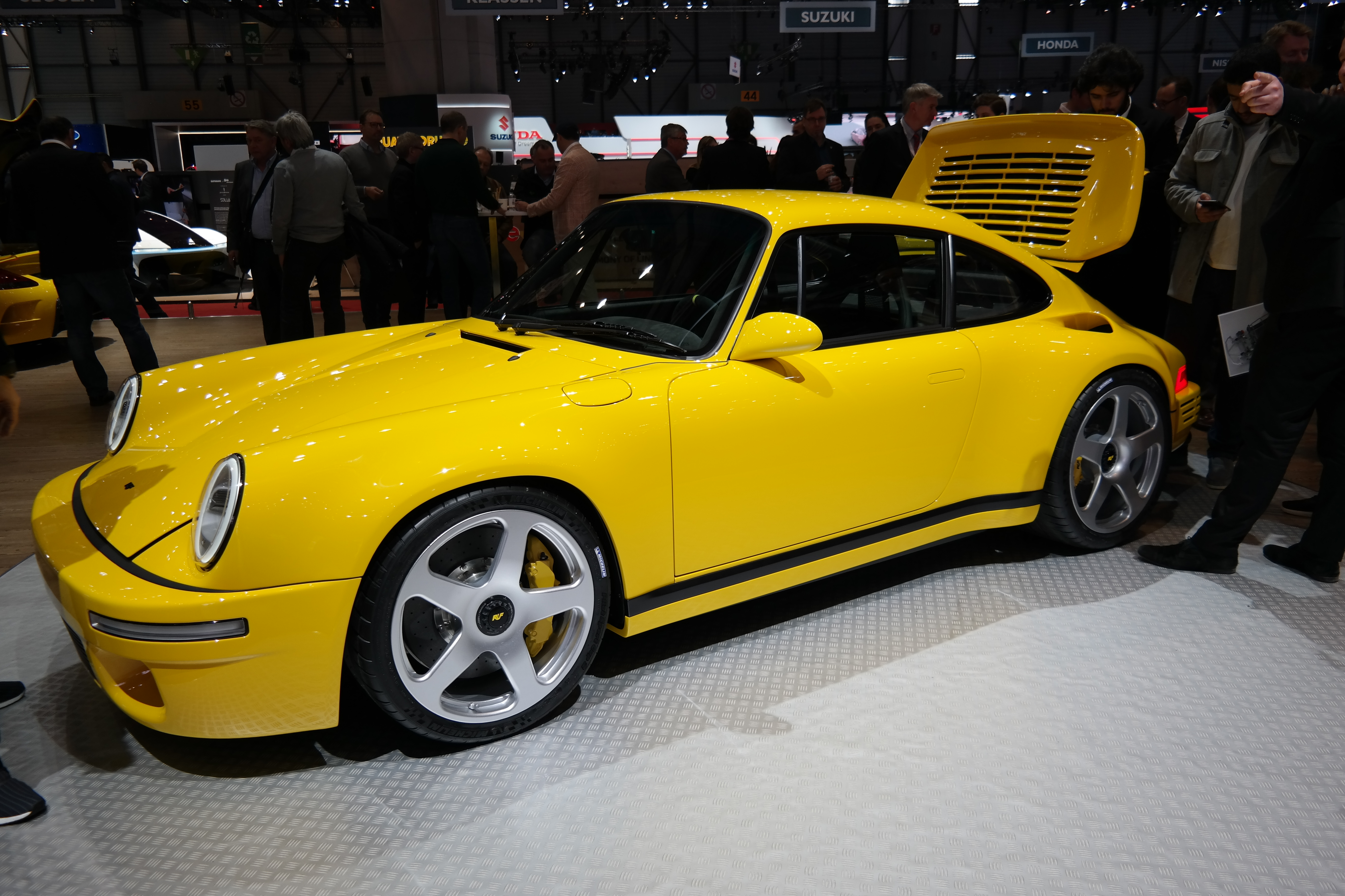 Geneva Motor Show 2017 (photo taken on the first press day)